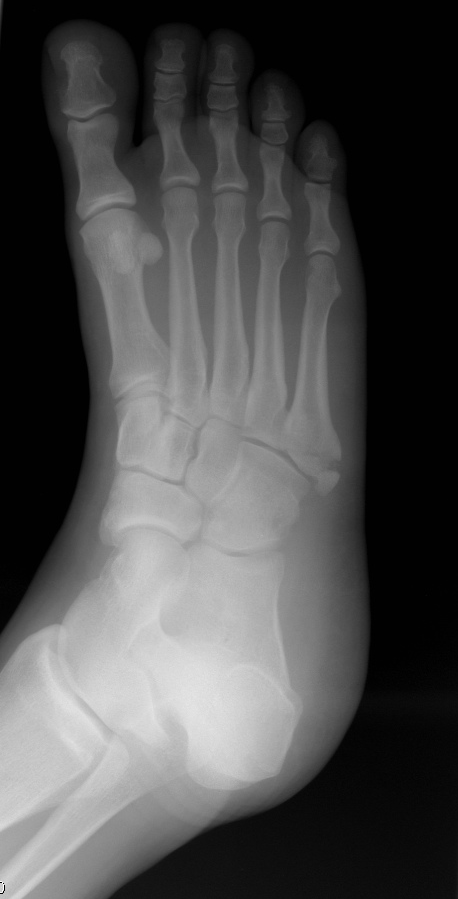 A fracture of the fifth metatarsal of the foot, commonly known as a Jones fracture